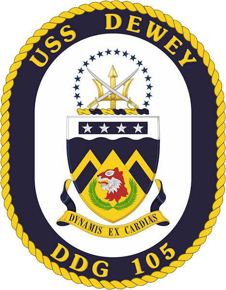 Emblem of the USS Dewey (DDG-105)